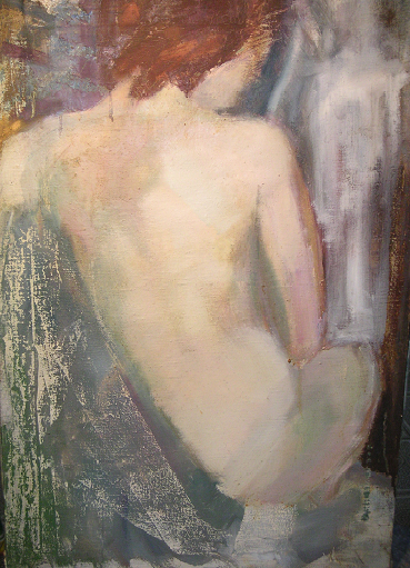 autor pracy - Ewa Wieczorek autor zdjęcia - Beata Sokalska-Wieczorek i Piotr Wieczorek